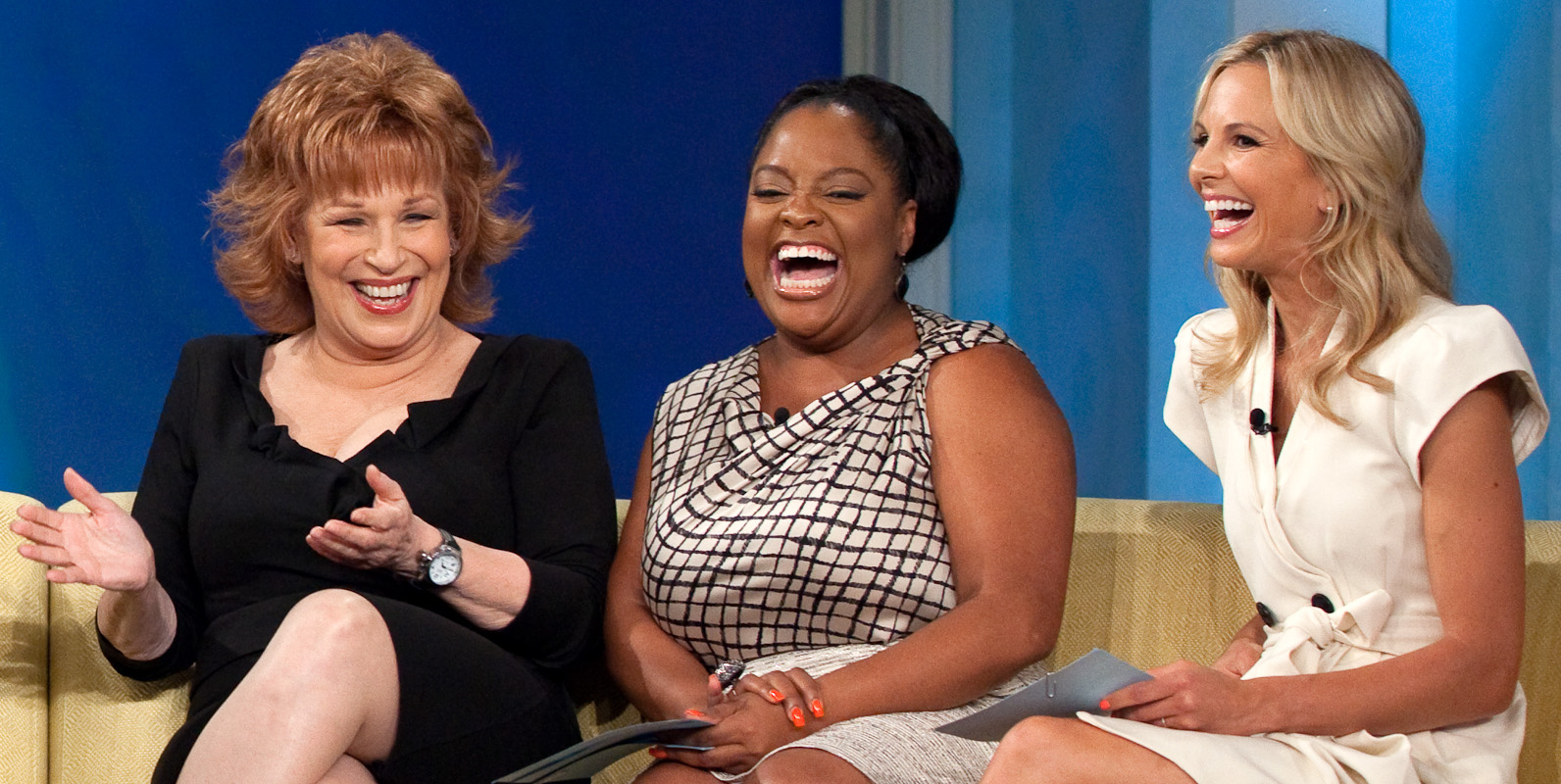 From left: Joy Behar, Sherri Shepherd, and Elisabeth Hasselbeck on an episode of The View at ABC Studios in New York City.